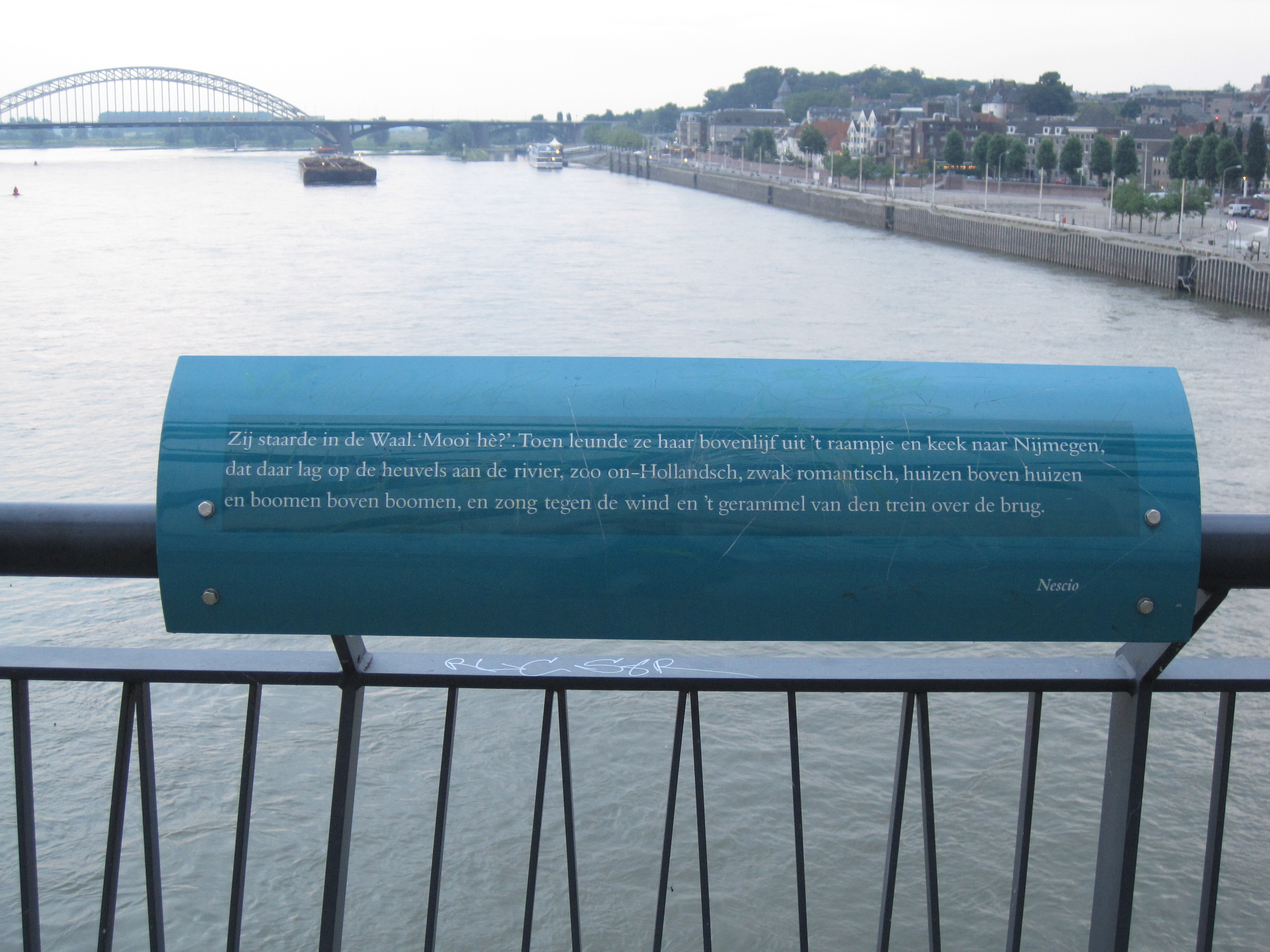 Text by Nescio on railwaybridge, Nijmegen, the Netherlands